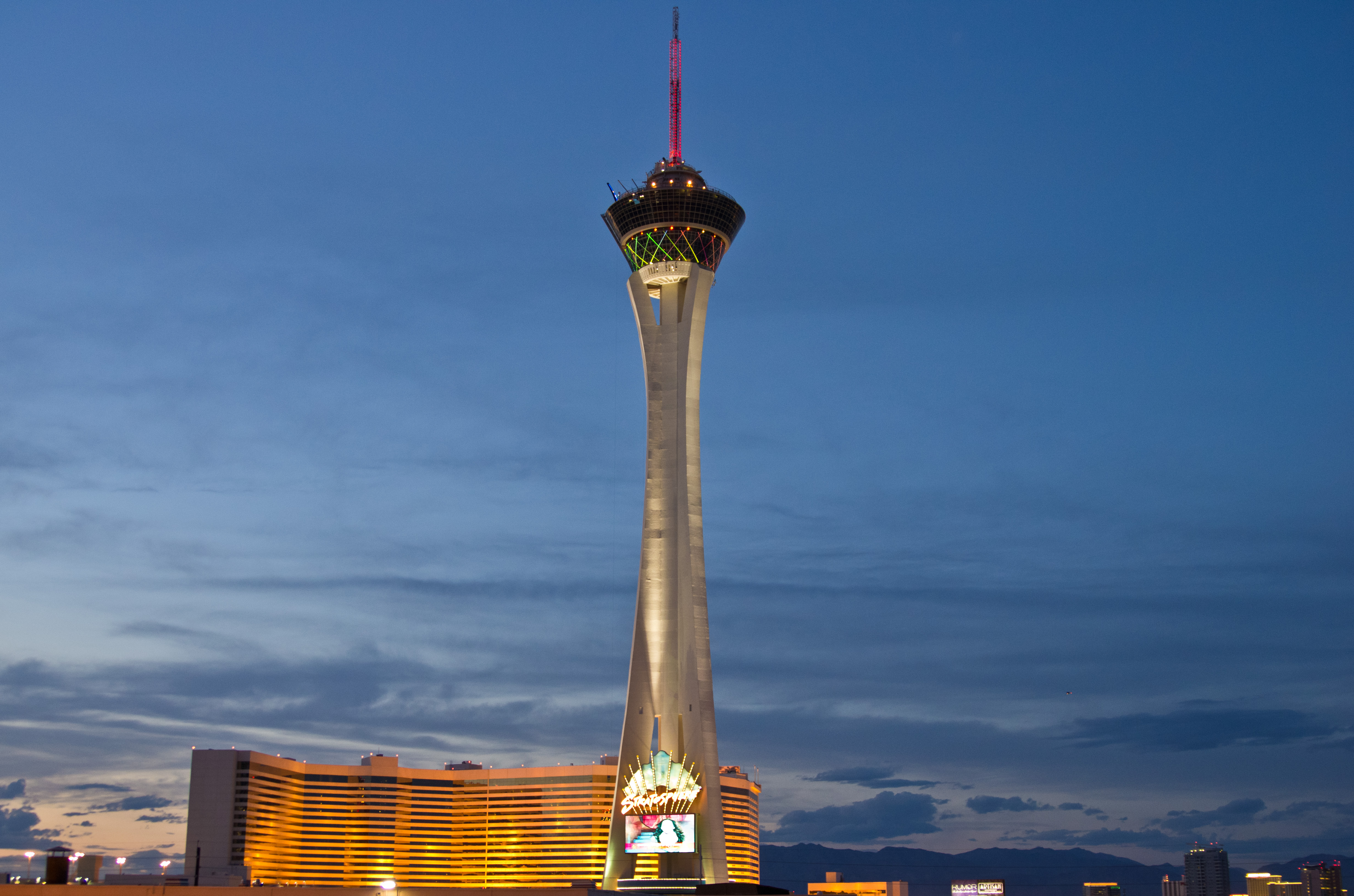 Stratosphere Las Vegas